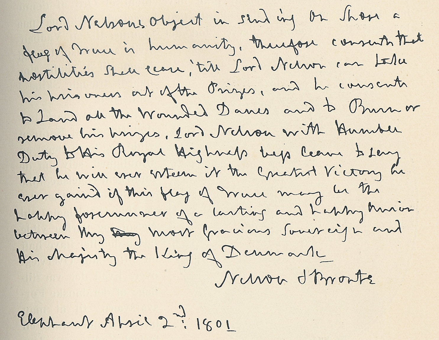 Nelson's second letter to the Danish government during the Battle of Copenhagen 1801.